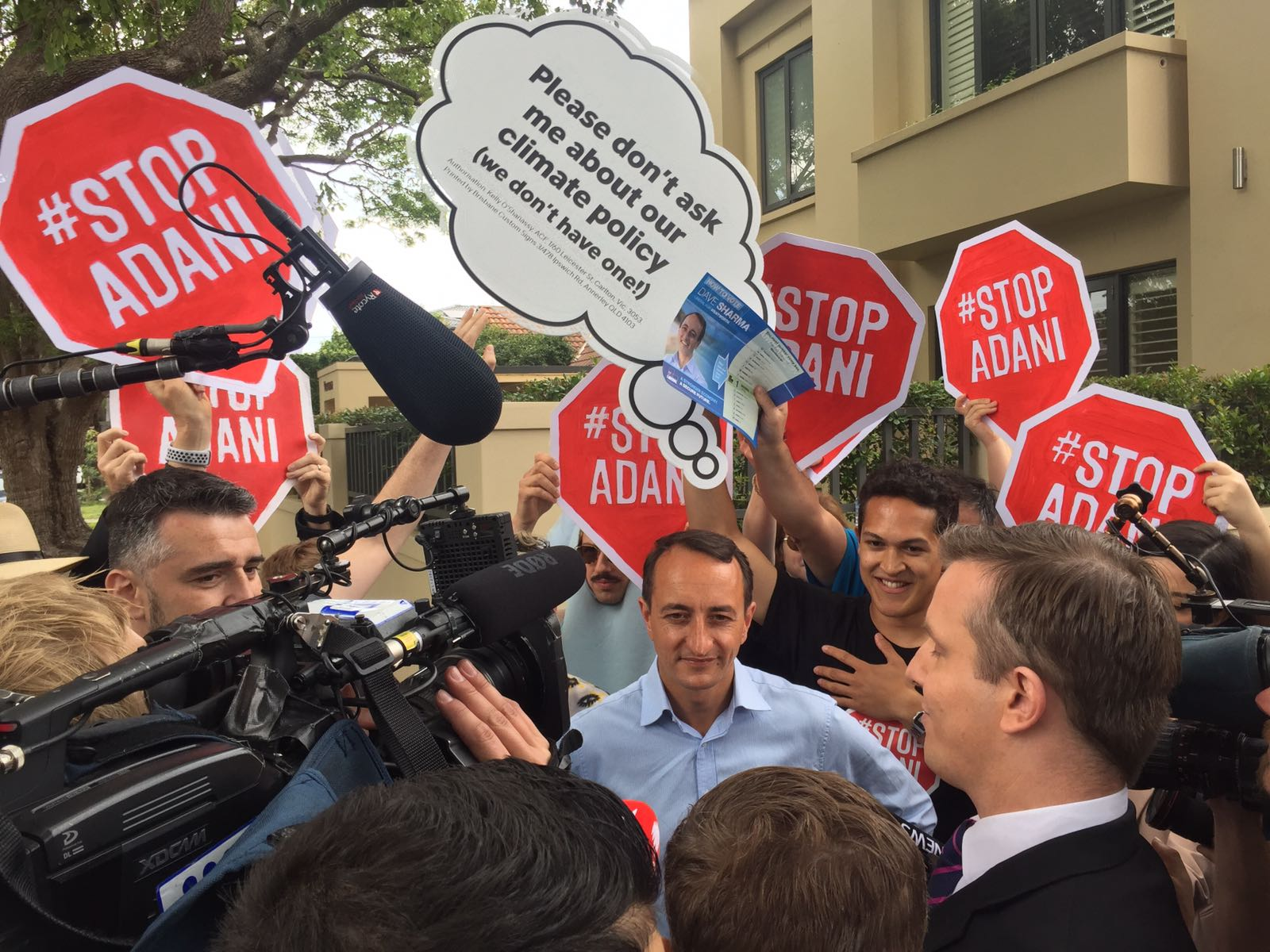 Wentworth by-election_Dave Sharma attracts some #StopAdani volunteers on election day_20 October 2018